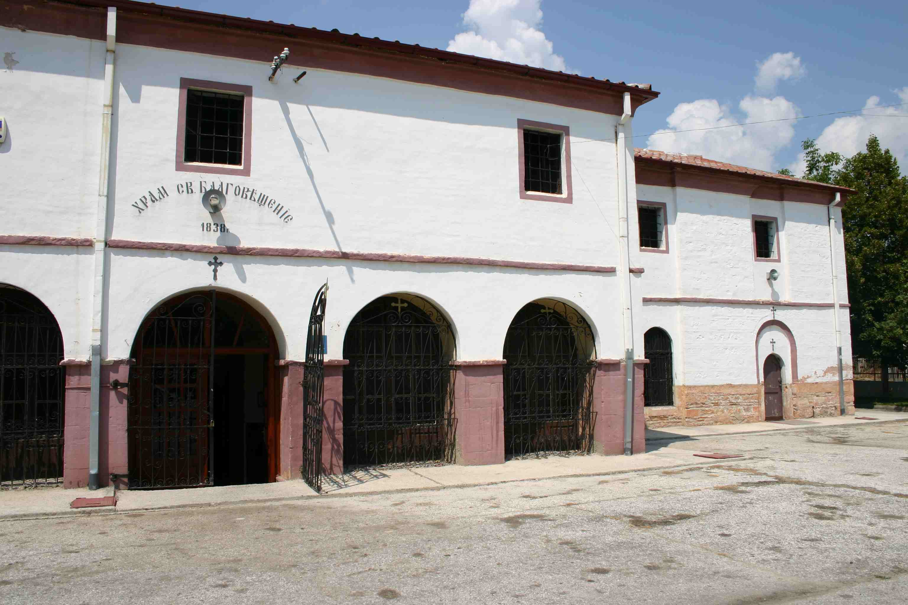 church "St.the ANNUNCIATION ", Prilep, Republic of Macedonia